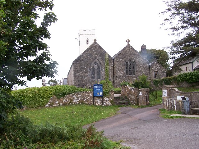 Manorbier Church. The 12th century church of St James overlooks the bay and is easily recognisable following restoration work by its white tower.